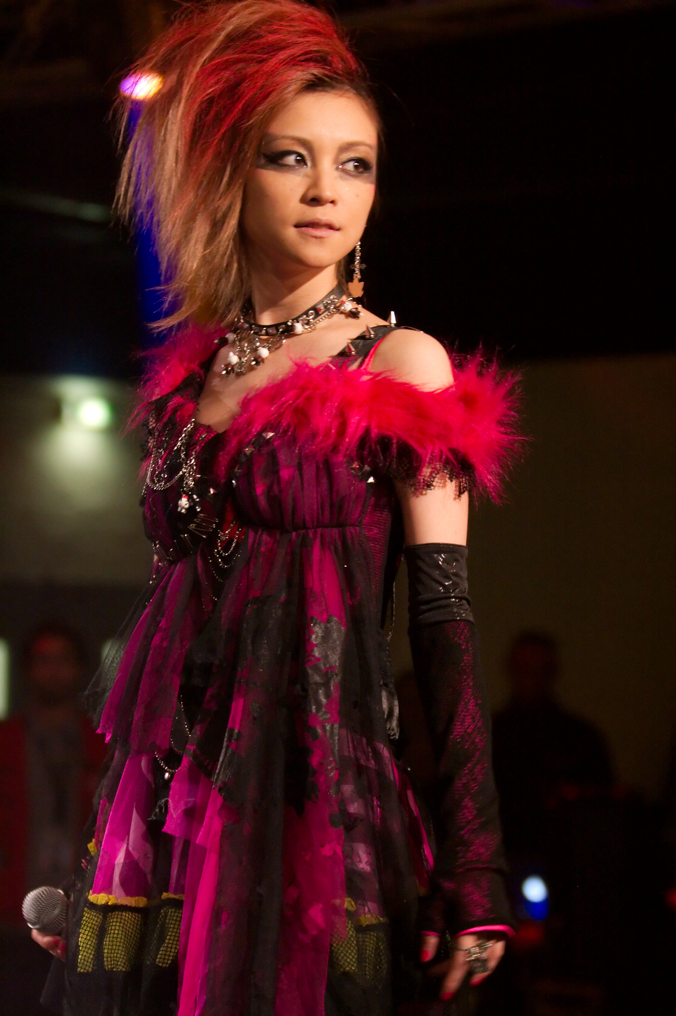 Hangry & Angry live at Chibi Japan Expo 2009 (Paris, France).